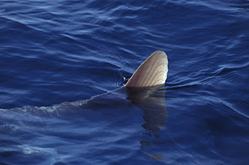 The dorsal fin of a mola mola, or ocean sunfish, breaking the water's surface